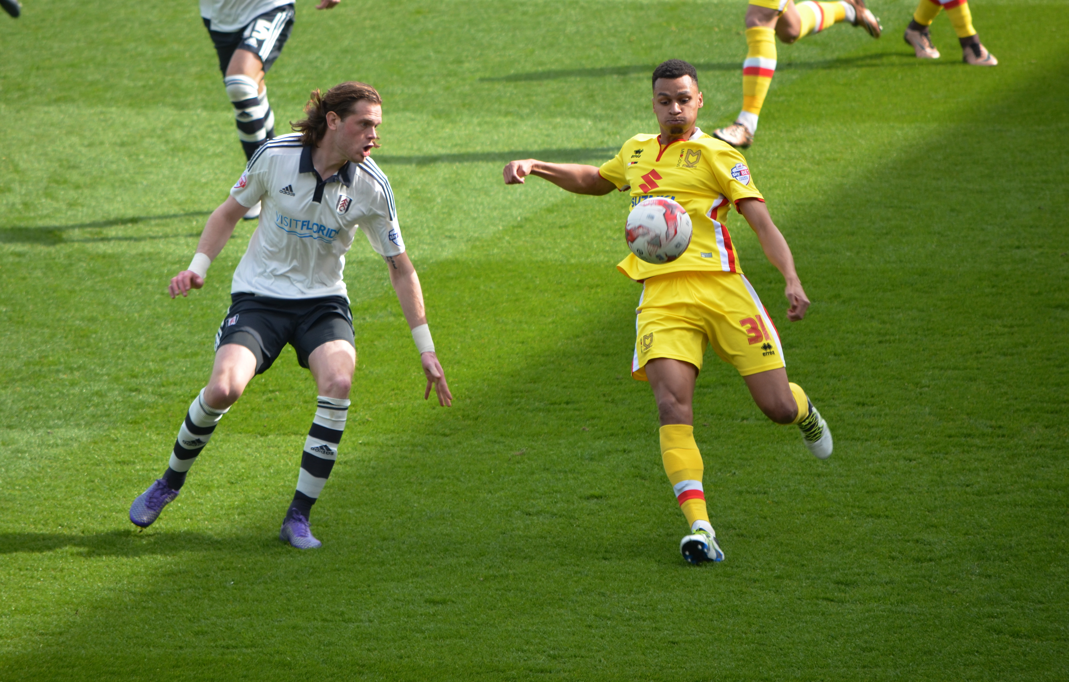 Richard Stearman (left) Josh Murphy (right)